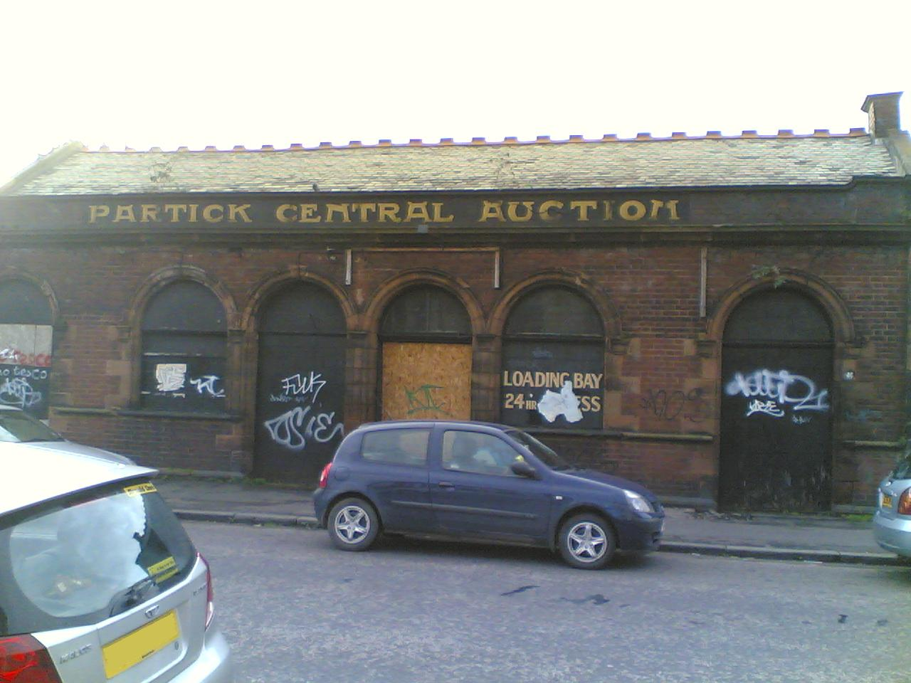 The former Partick Central railway station building, photographed by myself on October 20, 2006.